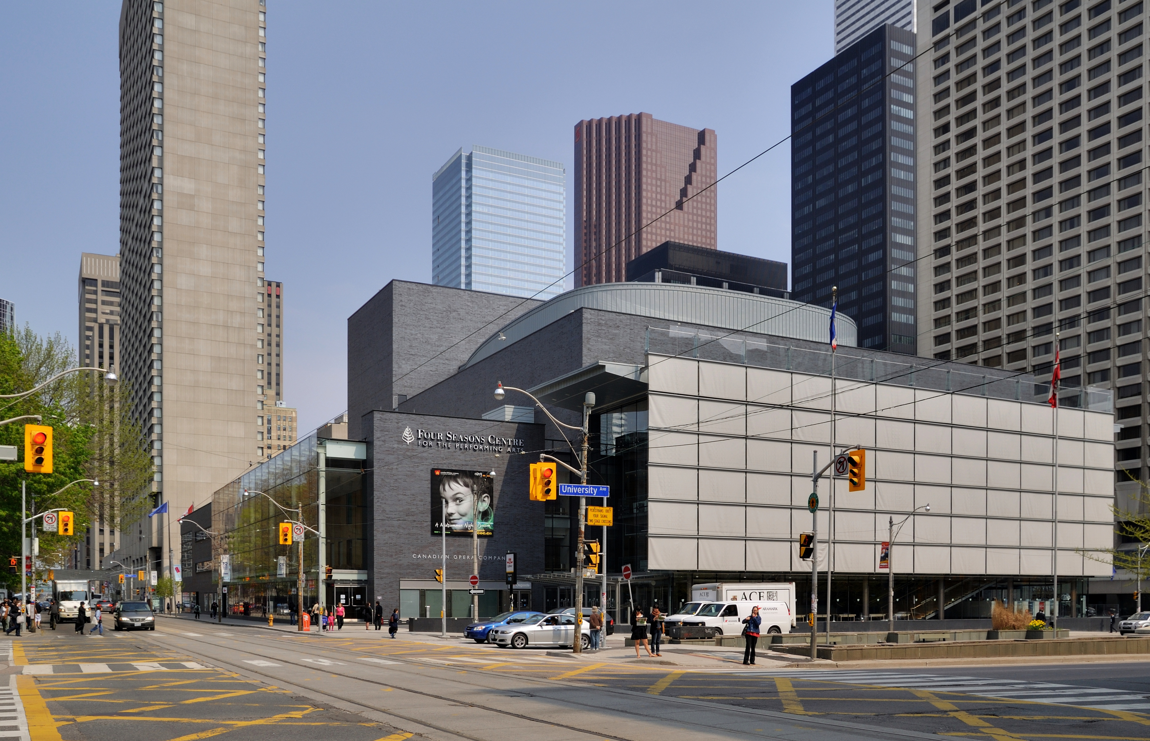 Toronto: Four Seasons Centre (concert hall and opera house)